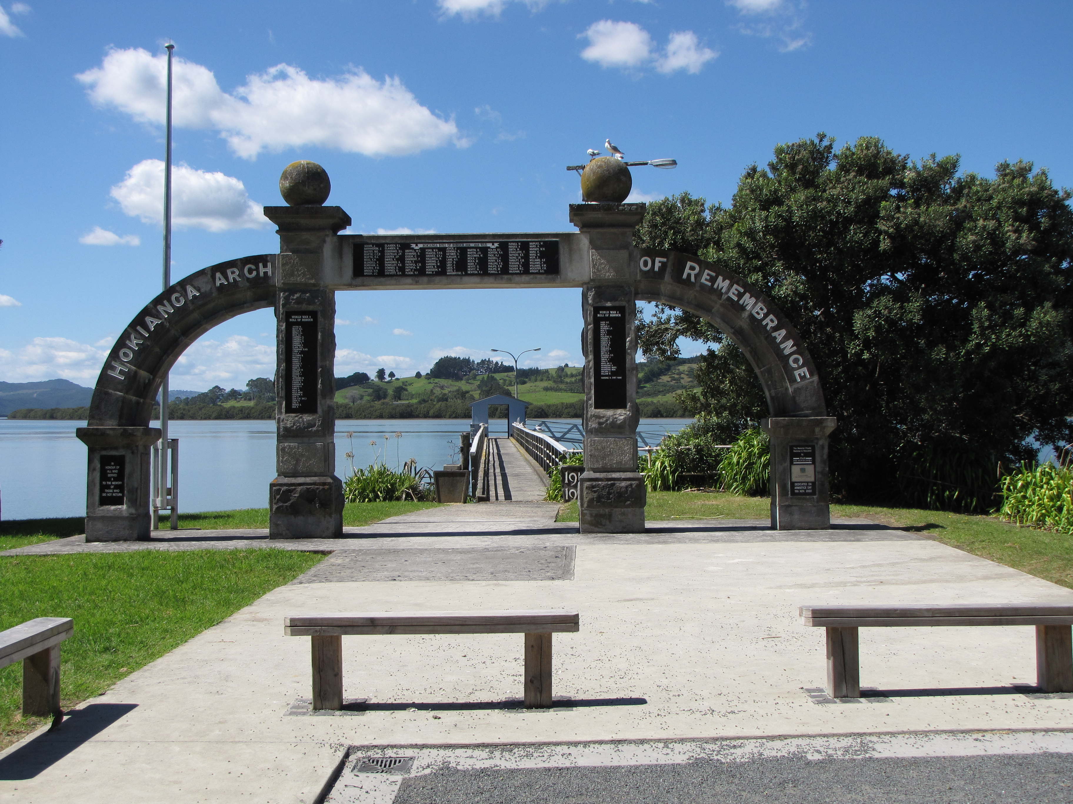 Kohukohu is a town on the north side of the Hokianga Harbour in Northland, New Zealand.